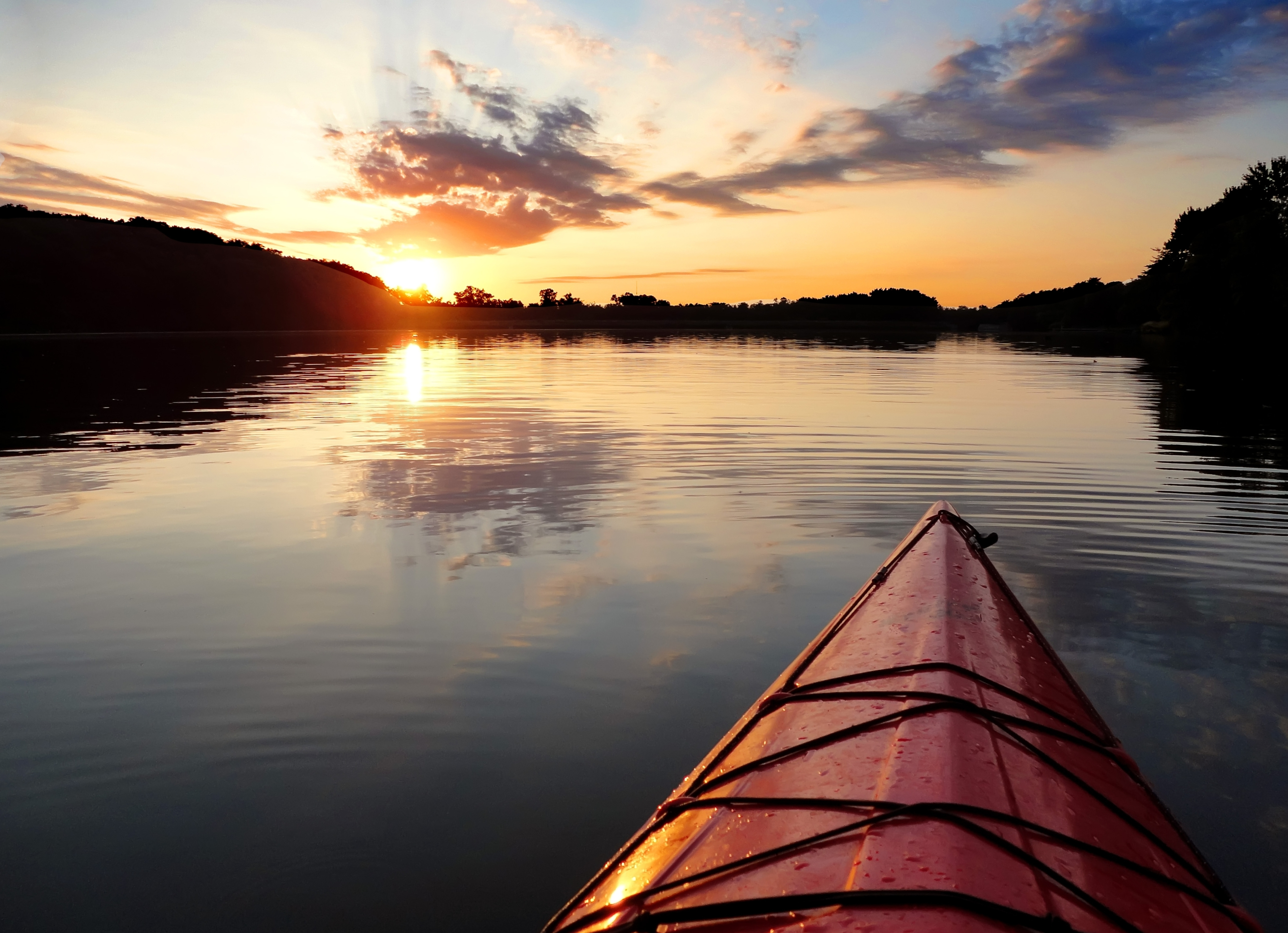 Beautiful sunset taken in a kayak on Lake Ahquabi State Park just south of Des Moines, Iowa.